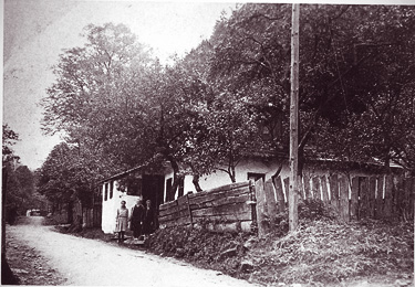 The native house where Anton Hám spent his childhood as the oldest of seven siblings.